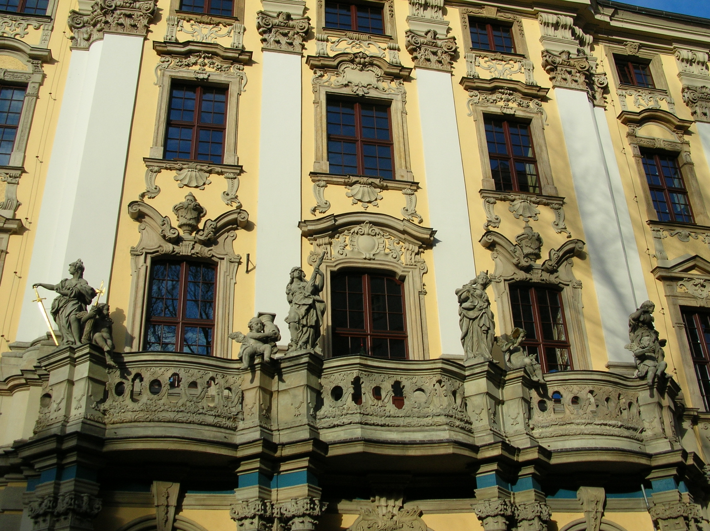 Wroclaw University, balcony with sculptures of Johann Albrecht Siegwitz